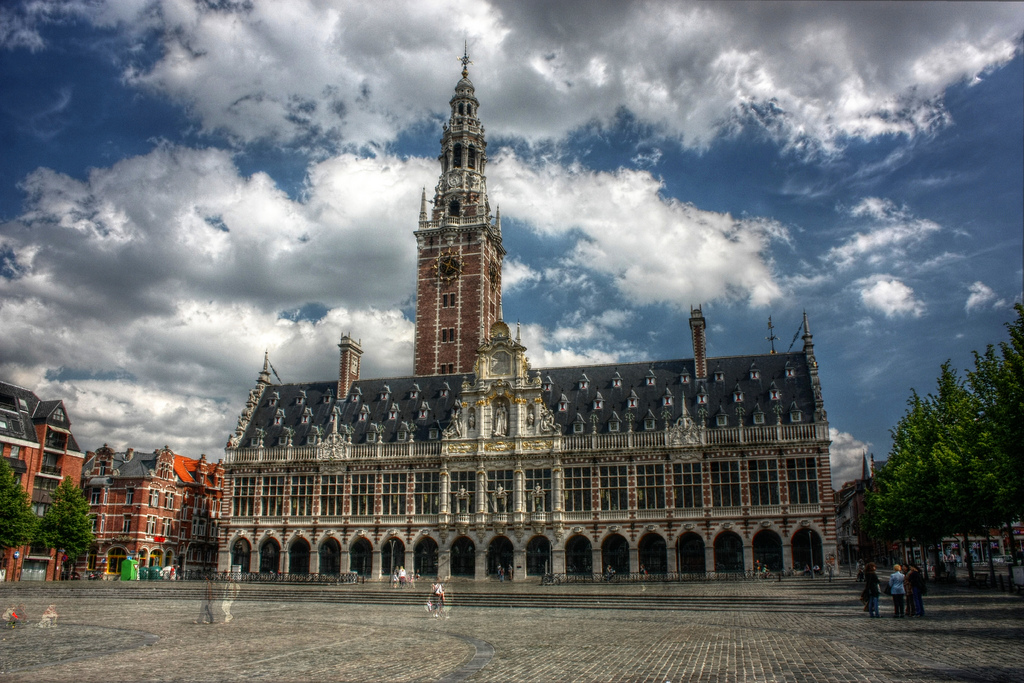 Qtpfsgui 1.9.3 tonemapping parameters: Operator: Mantiuk Parameters: Contrast Mapping factor: 0.072 Saturation Factor: 1.092 Detail Factor: 1 PreGamma: 0.636